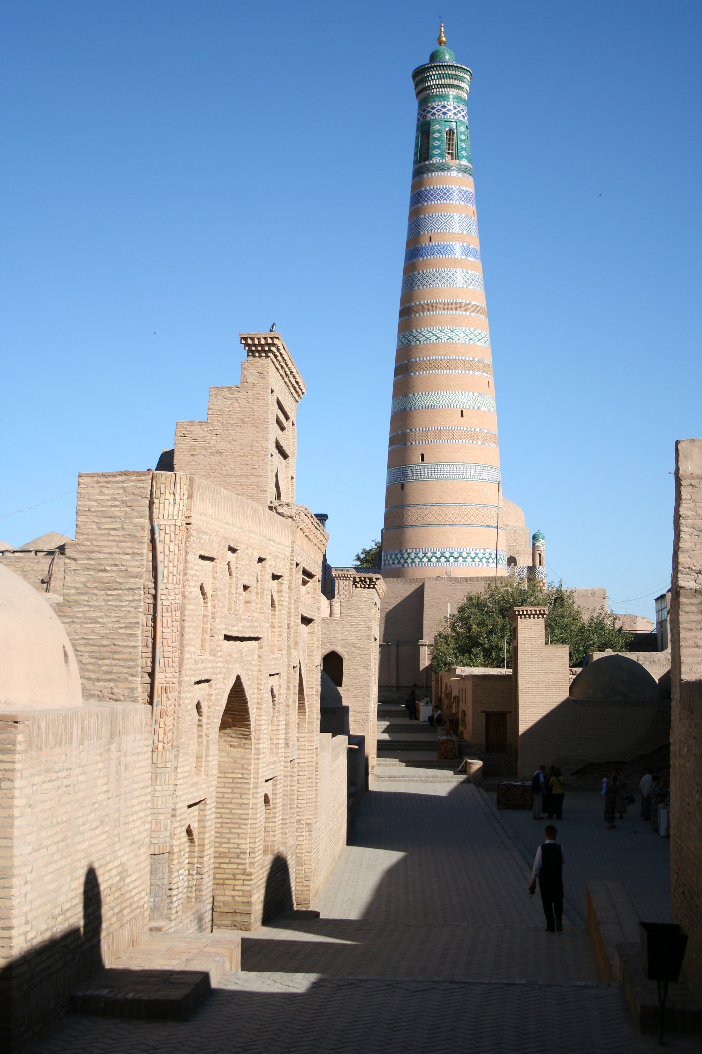 Islam Khodja Minaret